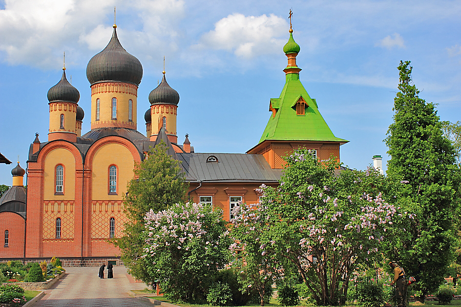 Inner yard and cathedral of Kuremäe Pühtitsa Convent. Kuremäe, Ida-Virumaa, Estonia.